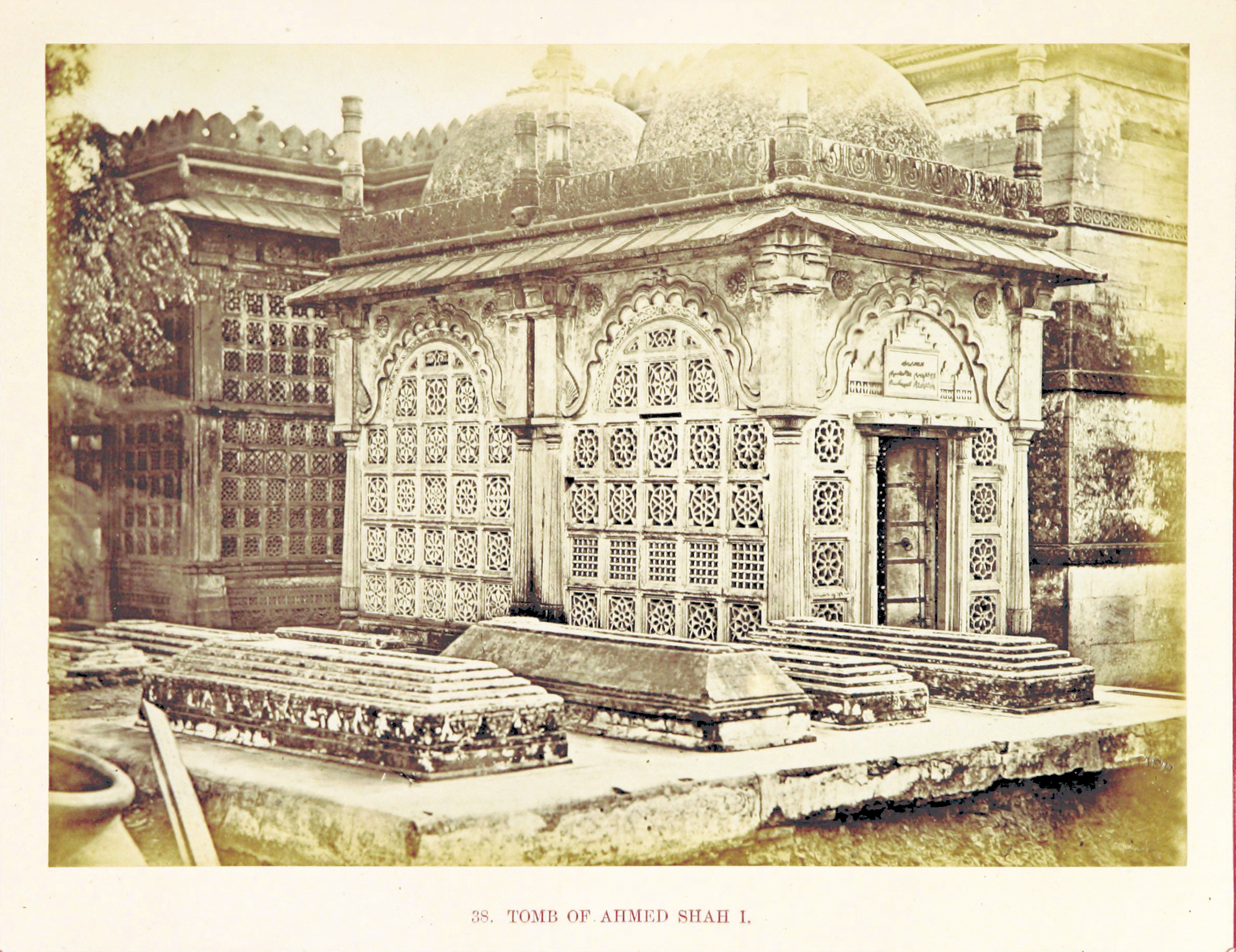 Image taken from: Title: "Architecture at Ahmedabad, the Capital of Goozerat, photographed by Colonel Biggs, ... With an historical and descriptive sketch, by T. C. H., ... and architectural notes by J. Fergusson, etc" Author: HOPE, Theodore Cracraft - Sir, K.C.S.I Contributor: BIGGS, Thomas. Contributor: FERGUSSON, James - Architect Shelfmark: "British Library HMNTS 10057.f.17.", "British Library OC V 6665" Page: 201 Place of Publishing: London Date of Publishing: 1866 Issuance: monographic Identifier: 001730119 Note: The colours, contrast and appearance of these illustrations are unlikely to be true to life. They are derived from scanned images that have been enhanced for machine interpretation and have been altered from their originals. If you wish to purchase a high quality copy of the page that this image is drawn from, please order it here. Please note that you will need to enter details from the above list - such as the shelfmark, the page, the book's volume and so on - when filling out your order. Following this or the link above will take you to the British Library's integrated catalogue. You will be able to download a PDF of the book this image is taken from, as well as view the pages up close with the 'itemViewer'. Click on the 'related items' to search for the electronic version of this work. Click here to see all the illustrations in this book and click here to browse other illustrations published in books in the same year. Please click on the tags shown on the right-hand side for other ways to browse the illustrations.